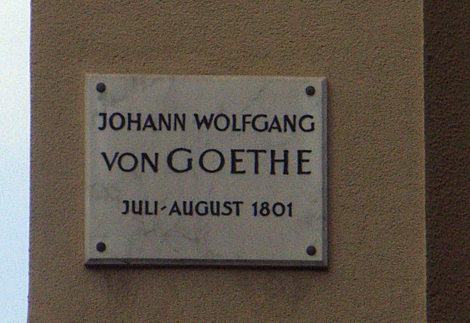 This image shows a informationsign in Göttigen.